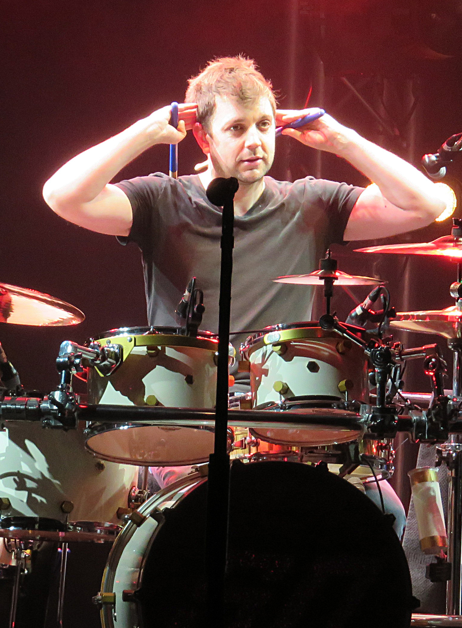 Leon Cave of Status Quo performing with the band at Leeds Arena, 2014.